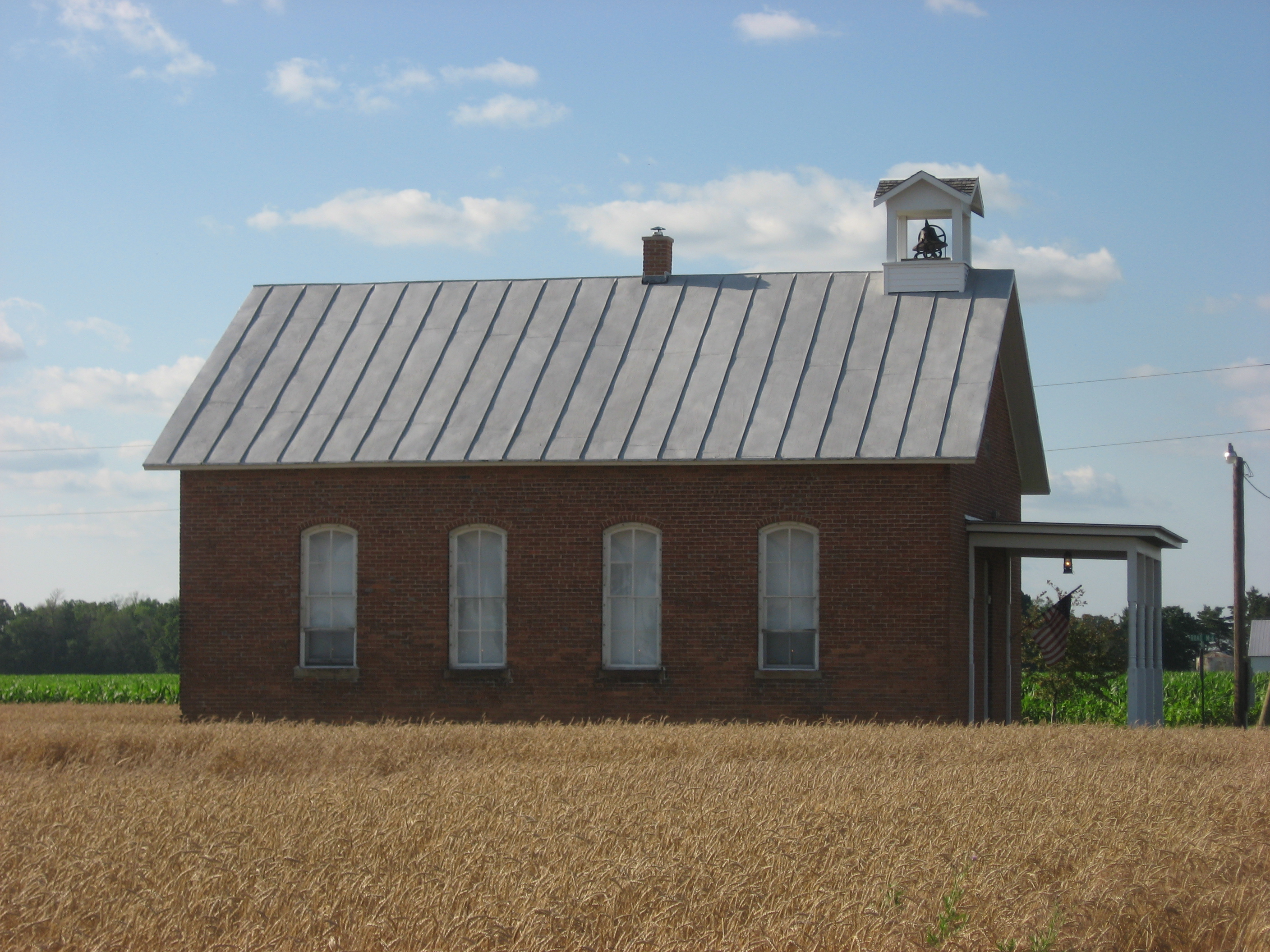 Southern side of the Bridenbaugh District No. 3 Schoolhouse, located on the southwestern corner of the intersection of Roads 6 and M-6 north of Pandora in Riley Township, Putnam County, Ohio, United States. Built in 1889, it is listed on the National Register of Historic Places.